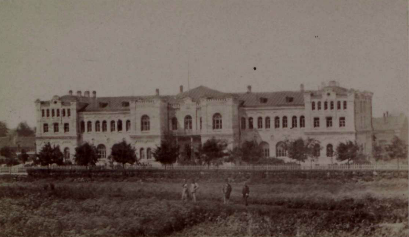 Old station building of Balti jaam in Tallinn, Estonia.